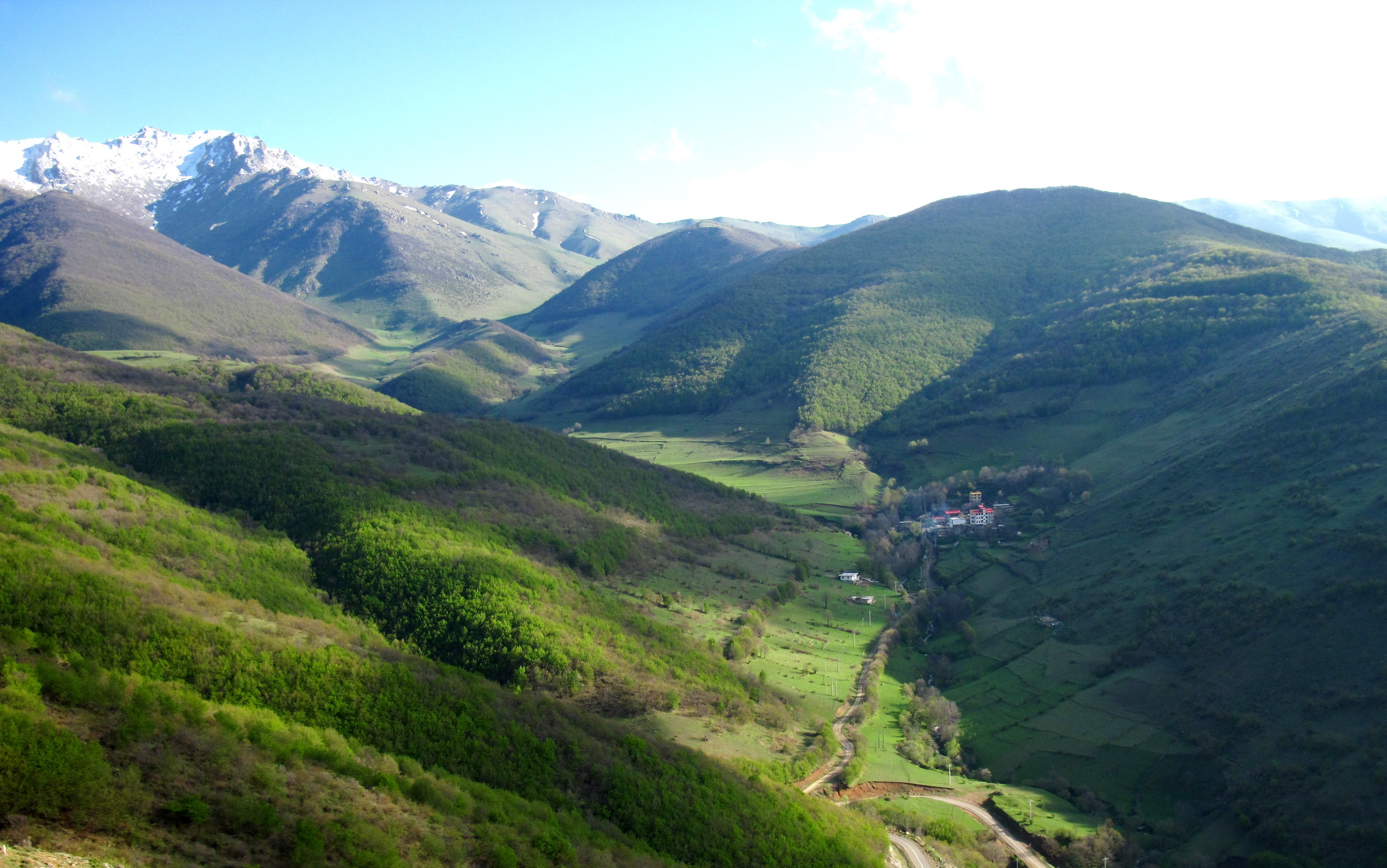 This is a photo of Aliabad, Kaleybar in 2013.